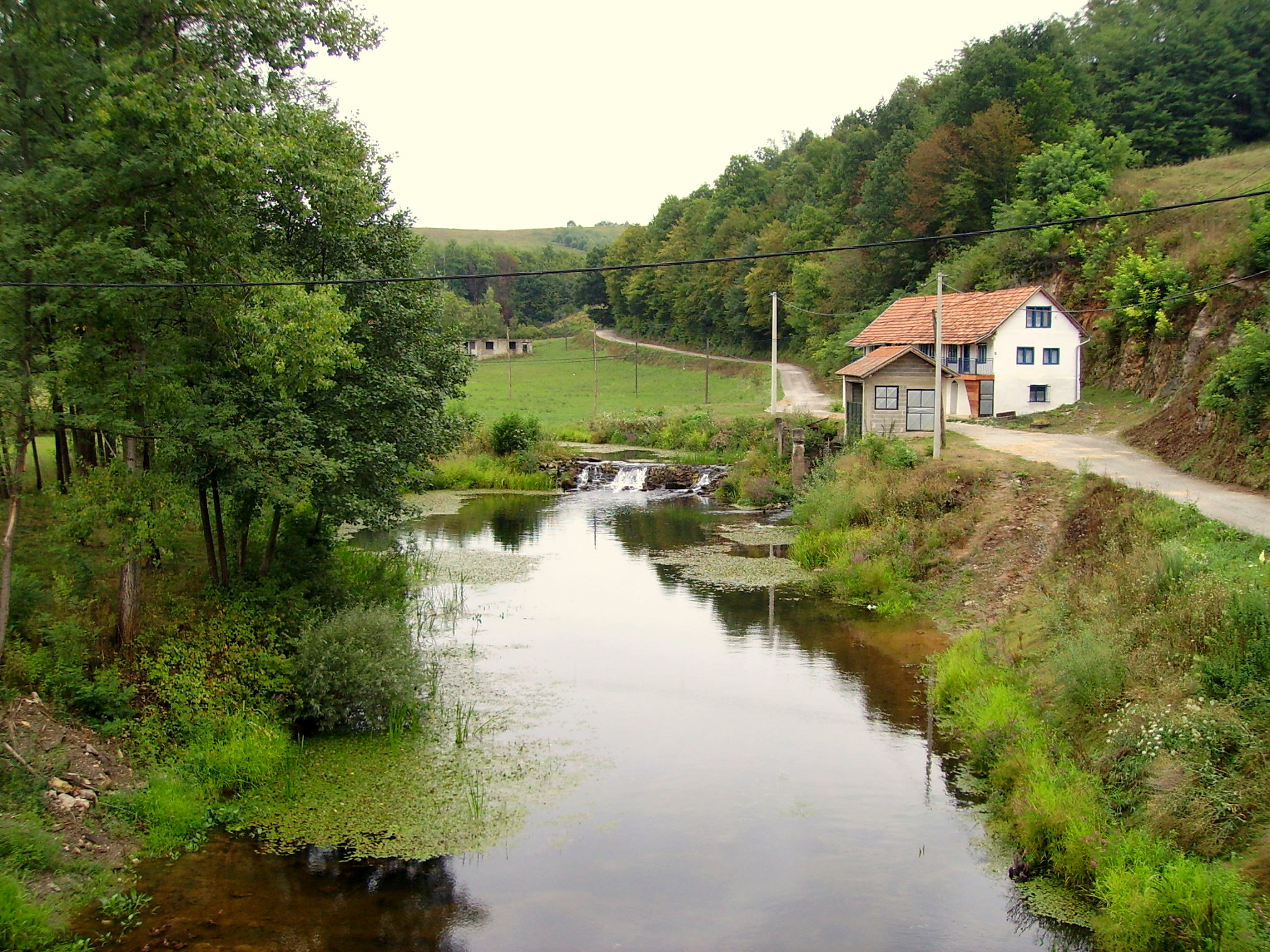 Croatia, River Glina near the Bosnian border (Velika Kladuša).